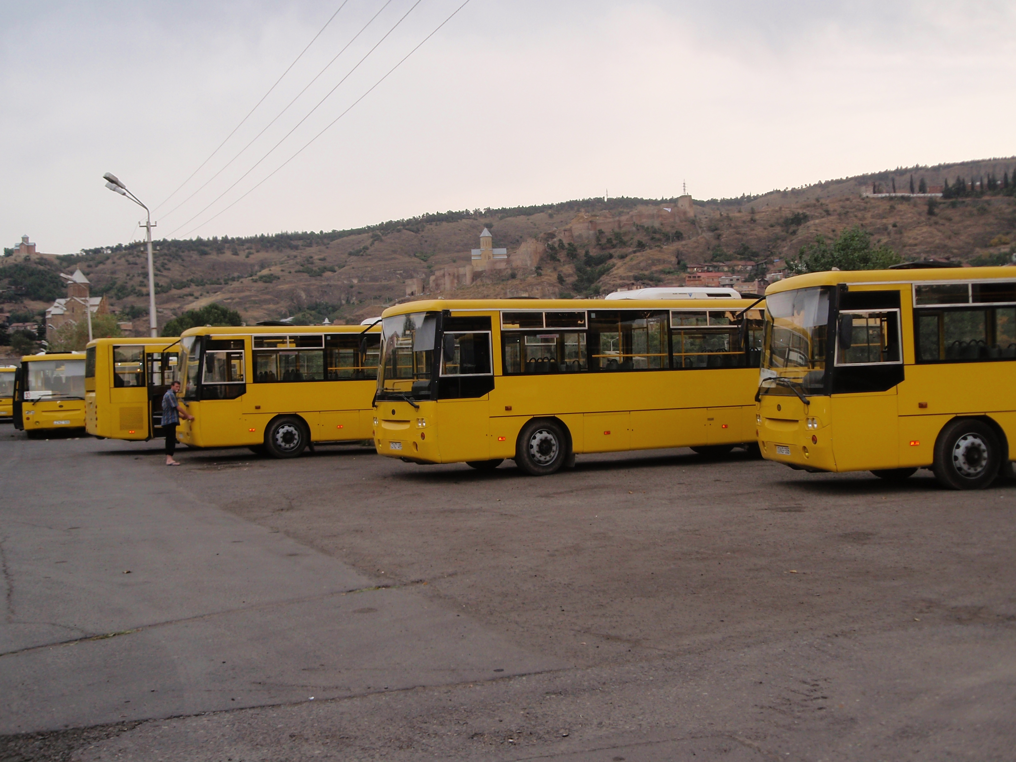 Tbilisi (Georgia), bus depot.